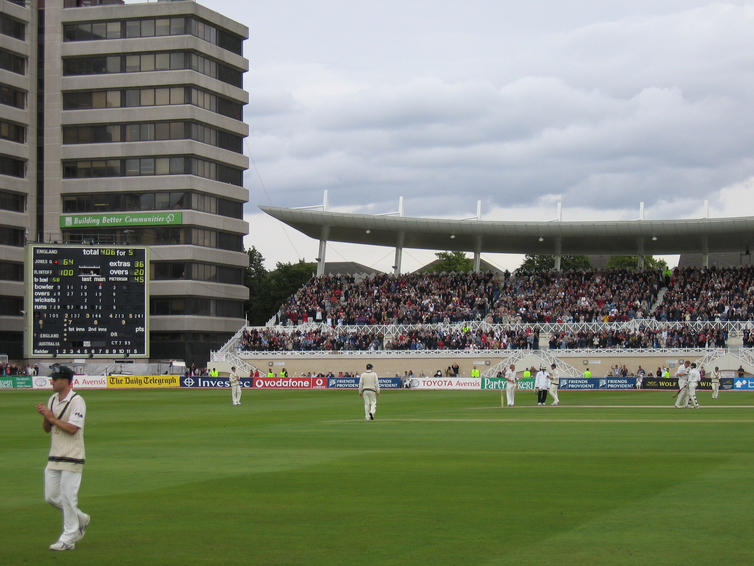 "Author: Craig Cameron (me), Trent Bridge 26/8/2005 - Happy for anyone to use it." 'Freddie' Flintoff reaches 100 in front of the Fox Road Stand - 2005 Test Match against Australia